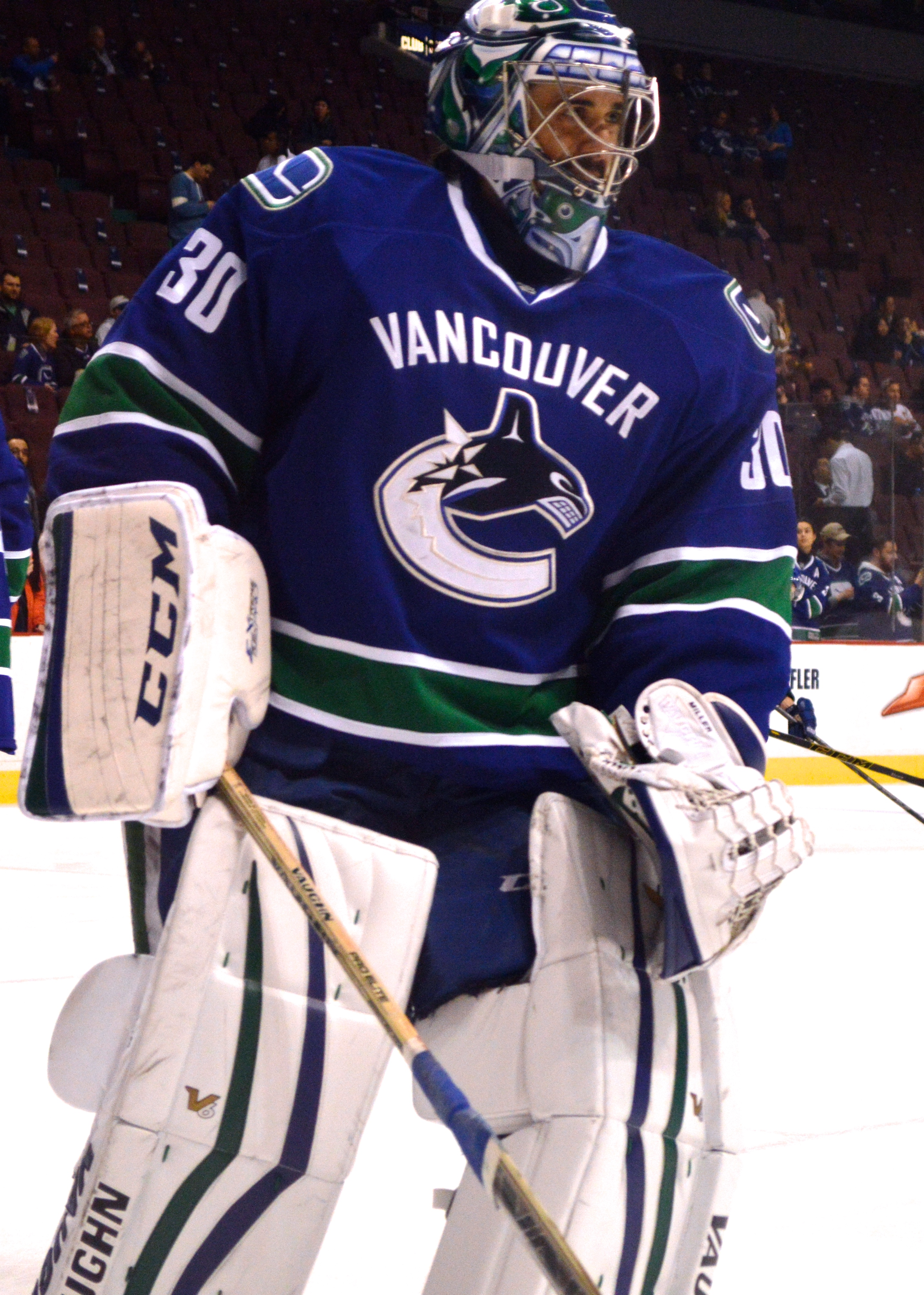 Vancouver Canucks goaltender Ryan Miller during warm-up prior to a game against the Winnipeg Jets at Rogers Arena on February 3, 2015.